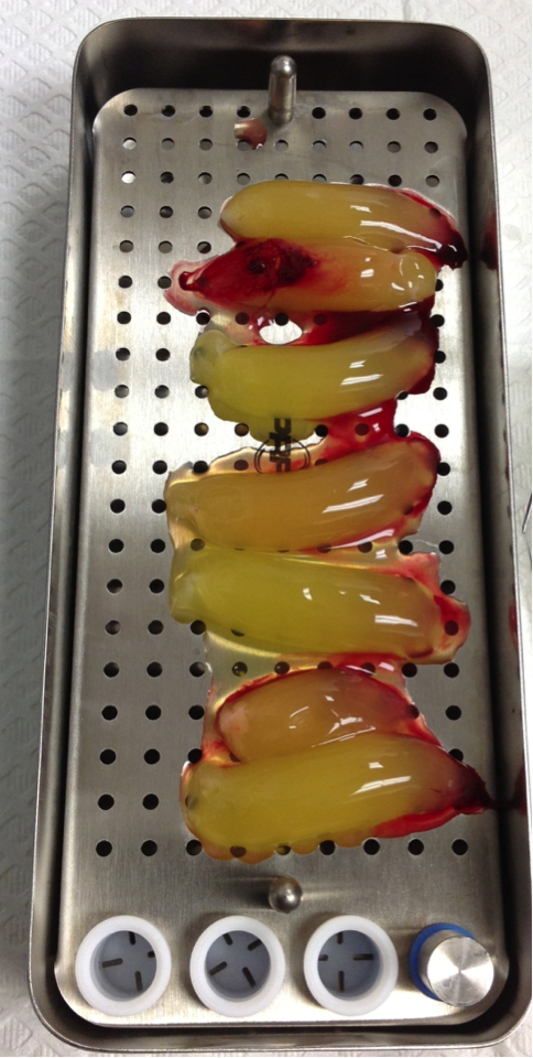 The APRF clots are placed in a tray and stored prior to be used in the form of membranes or plugs.